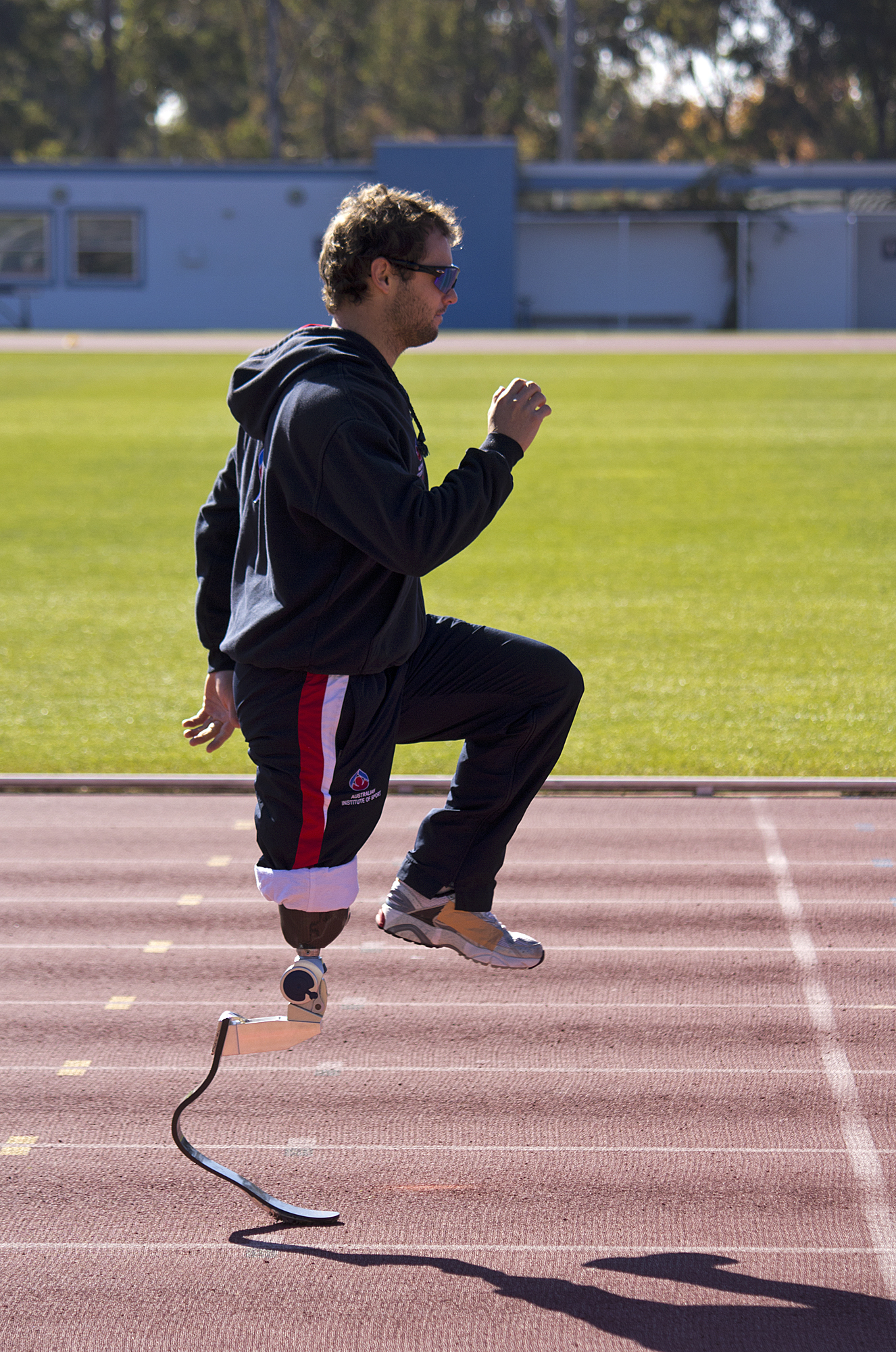 Paralympic athlete Scott Reardon at the AIS Track and Field.